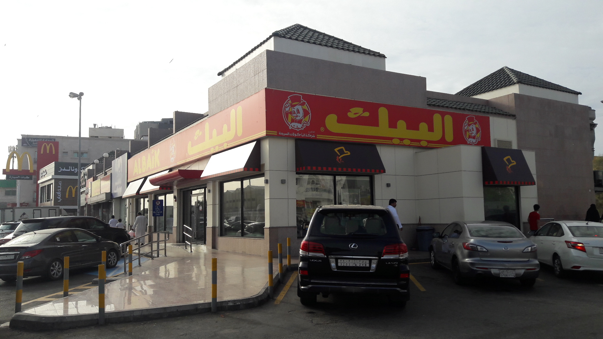 AlBaik, Corniche